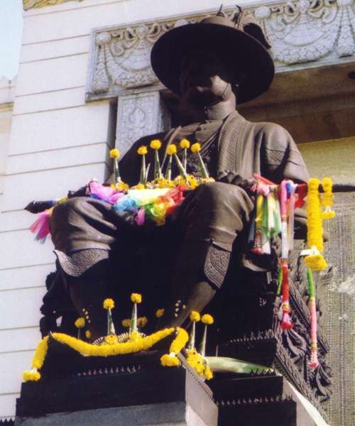 King Rama I of Thailand memorial in Bangkok, located near the Memorial Bridge. The statue was erected in 1932 to commemorate the 150th anniversary of Rattanakosin island. It was cast by the famous Thai sculptur Silpa Bhirasri. Photo taken by User:Ahoerstemeier on July 18, 2003. Sadly the face is in shadow, I will go there again at a different time of the day when I have chance again.